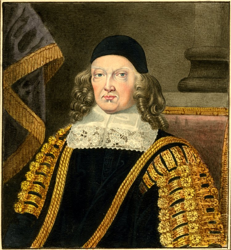 Portrait of Sir Harbottle Grimston (c.1569-1648), Master of the Rolls